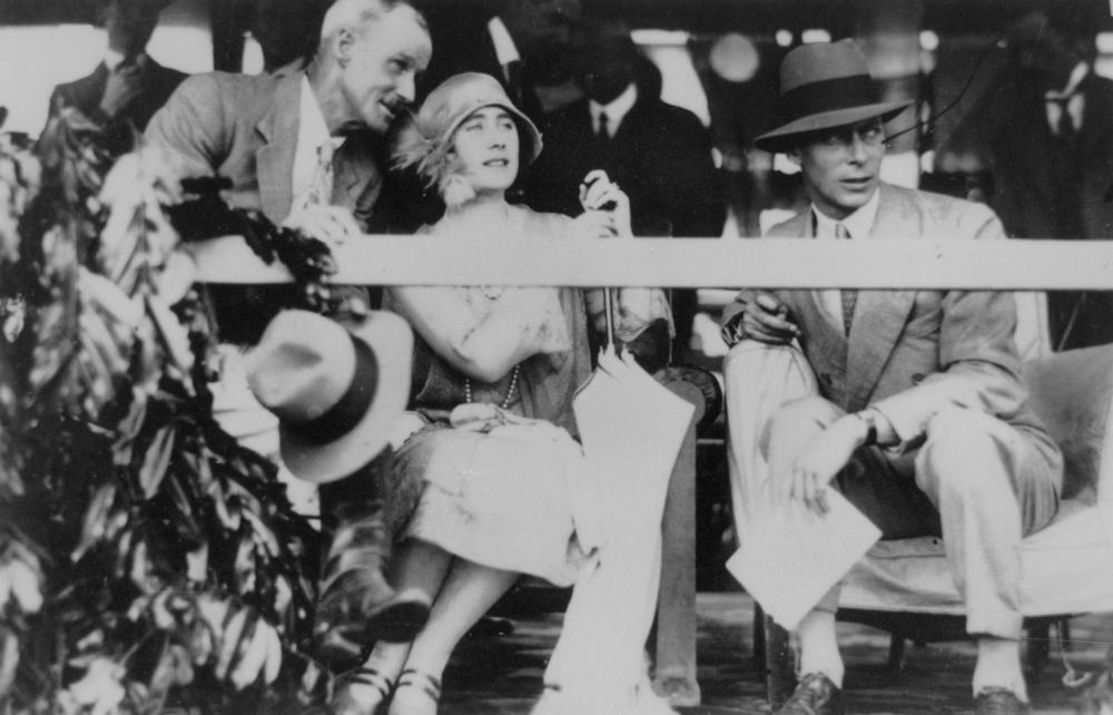 Duke and Duchess of York at a Beaudesert campdraft, 1927